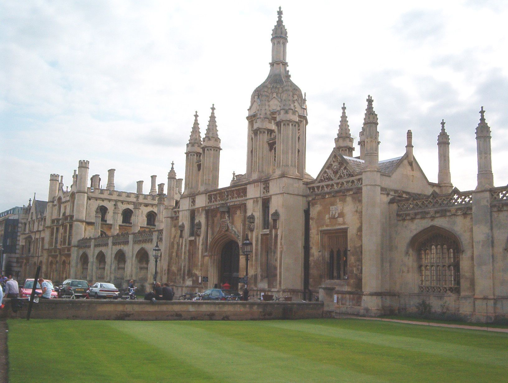 from en.wikipedia